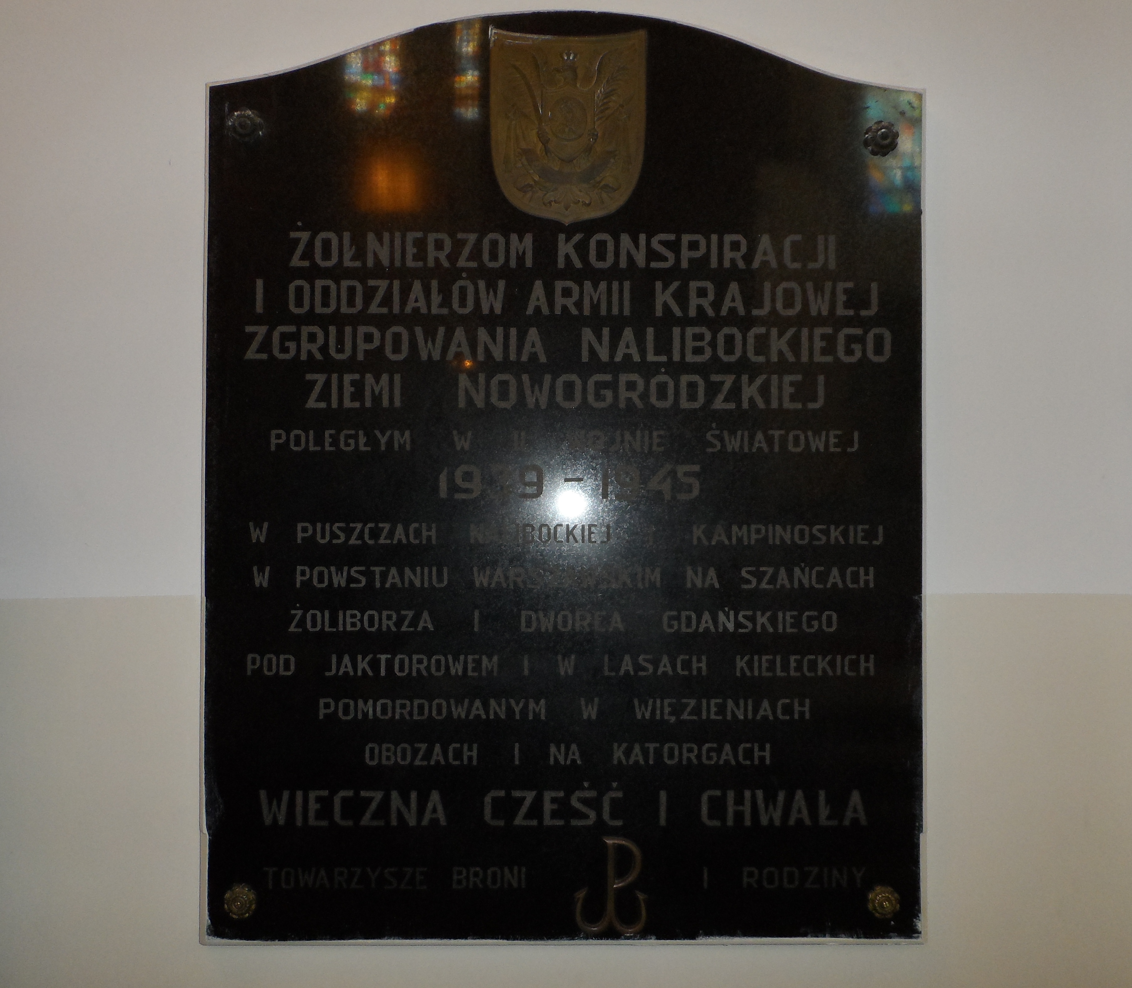 Plaque inside the St. Stanislaus Kostka Chuch in Warsaw commemorating soldiers of Zgrupowanie Stołpecko-Nalibockie AK (partisan unit of Polish Home Army which fought i.a. in Warsaw Uprising).